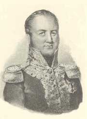 Étienne Maurice Gérard, comte Gérard (4 April 1773 – 17 April 1852) was a French general and statesman. He served under a succession of French governments.